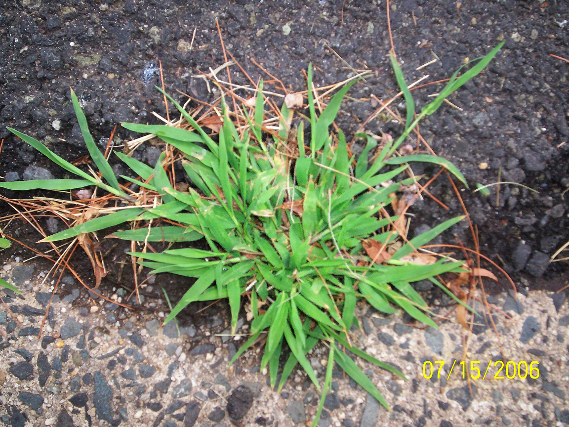 Added contrast, color saturation, a little sharpening to original file Crabgrass.JPG and decreased image size (for use as wiktionary thumbnail)